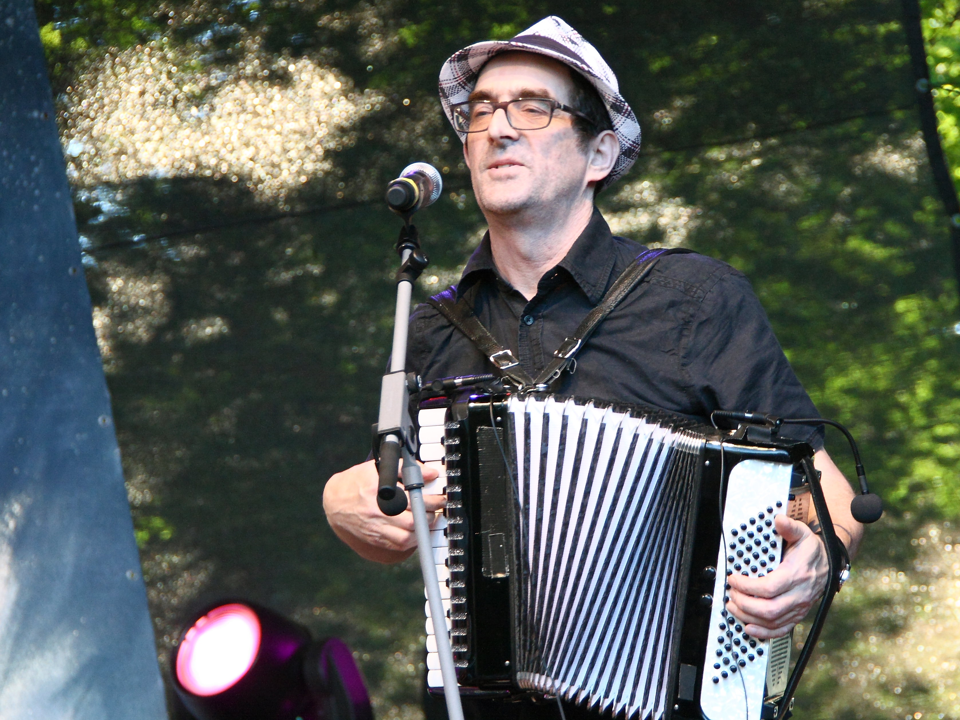 Phil Moody of Chumbawamba at TFF Rudolstadt.